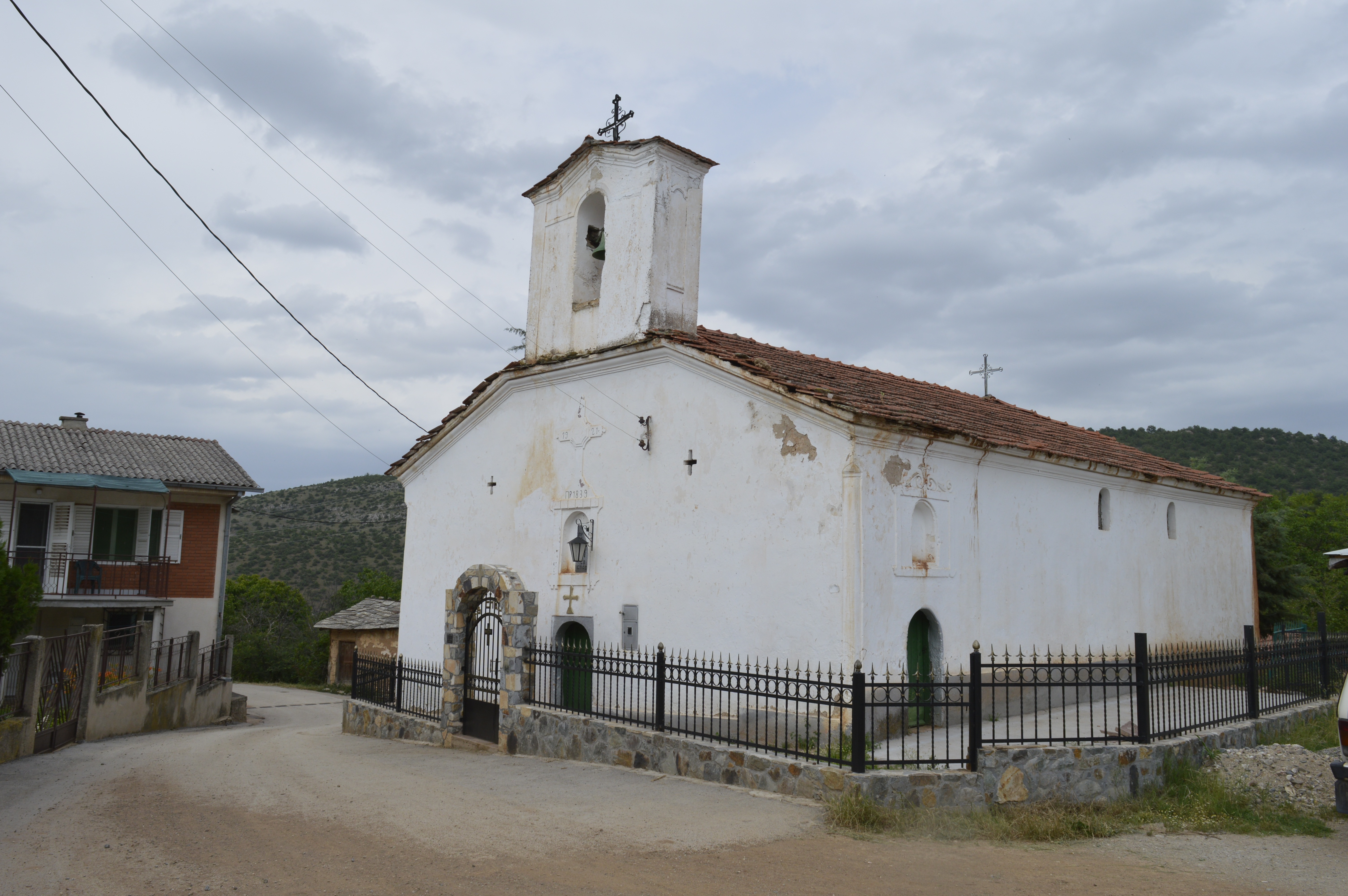 View of the Church of the Ascension of Jesus in the village Oraovec